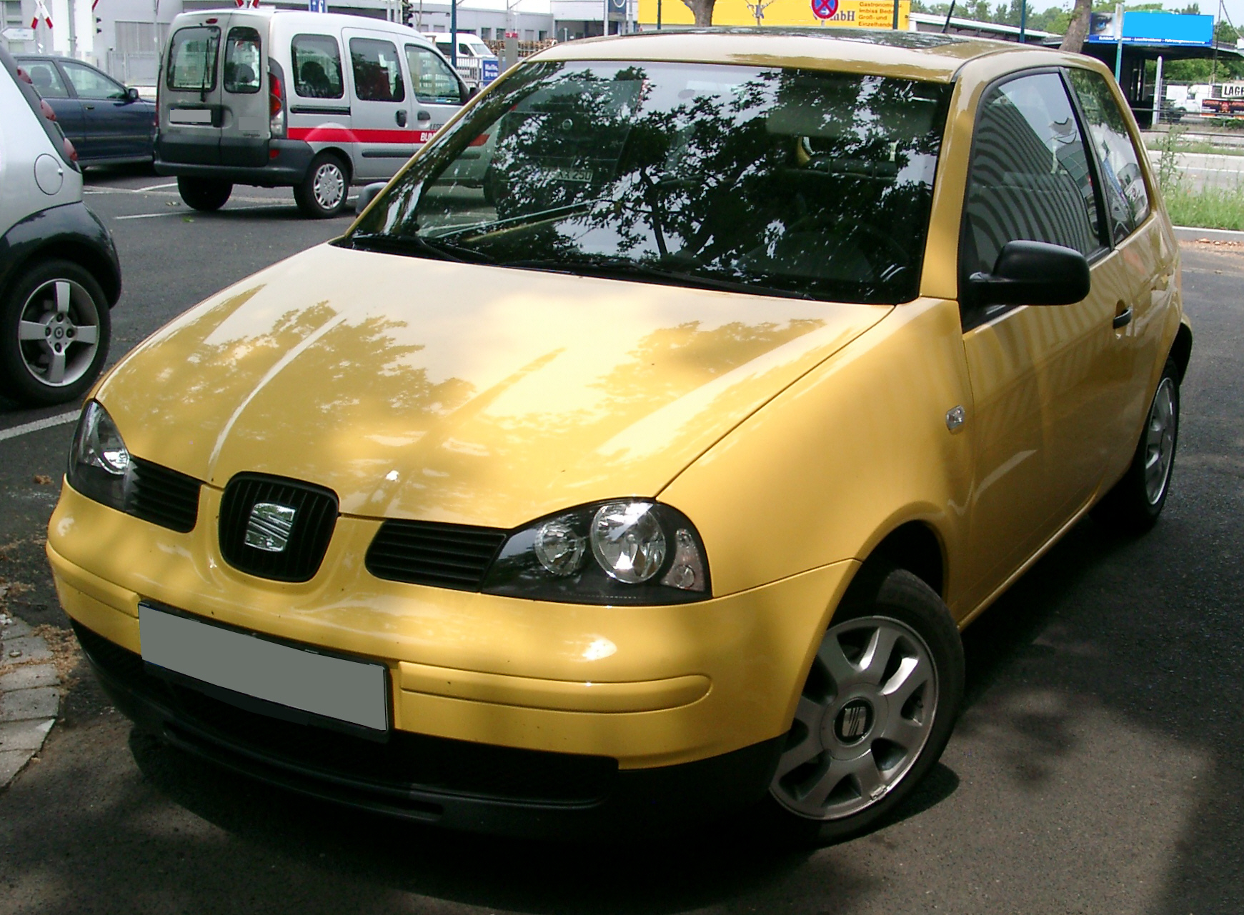 Seat Arosa